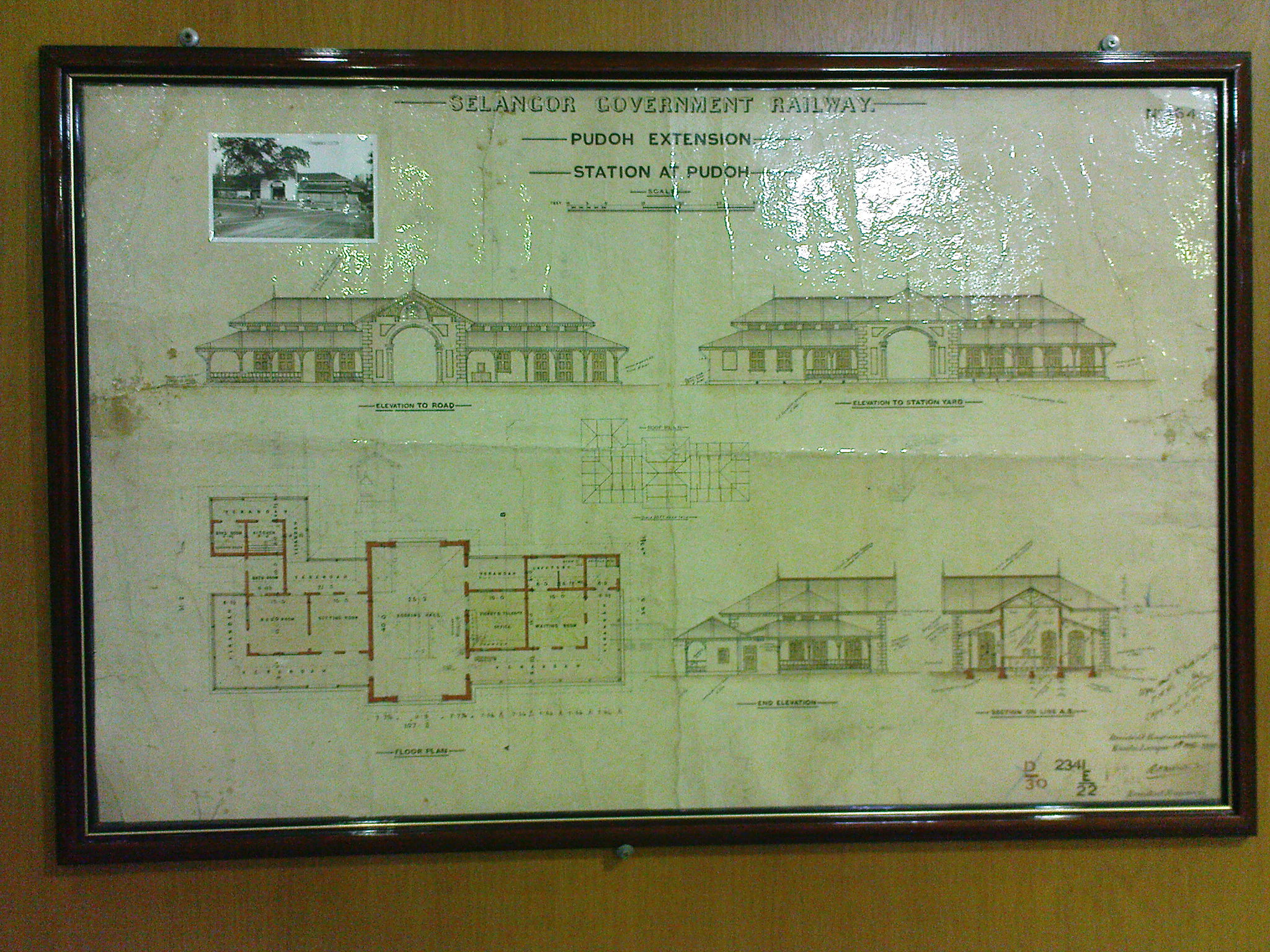 Architect sketch pictures of the demolished Pudoh (Pudu) railway station in Pudu, Kuala Lumpur, Malaysia. It was under the Selangor Government Railway, then the Keretapi Tanah Melayu (KTM) (Malayan Railway). Now it is replaced by the Pudu LRT station, where the KTM railway tracks were dismantled and replaced by the LRT tracks. The current LRT line was under Sistem Transit Aliran Ringan (STAR), now RapidKL, and the line is renamed as Ampang Line.